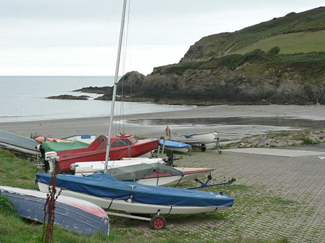 Boats at Pwllgwaelod.